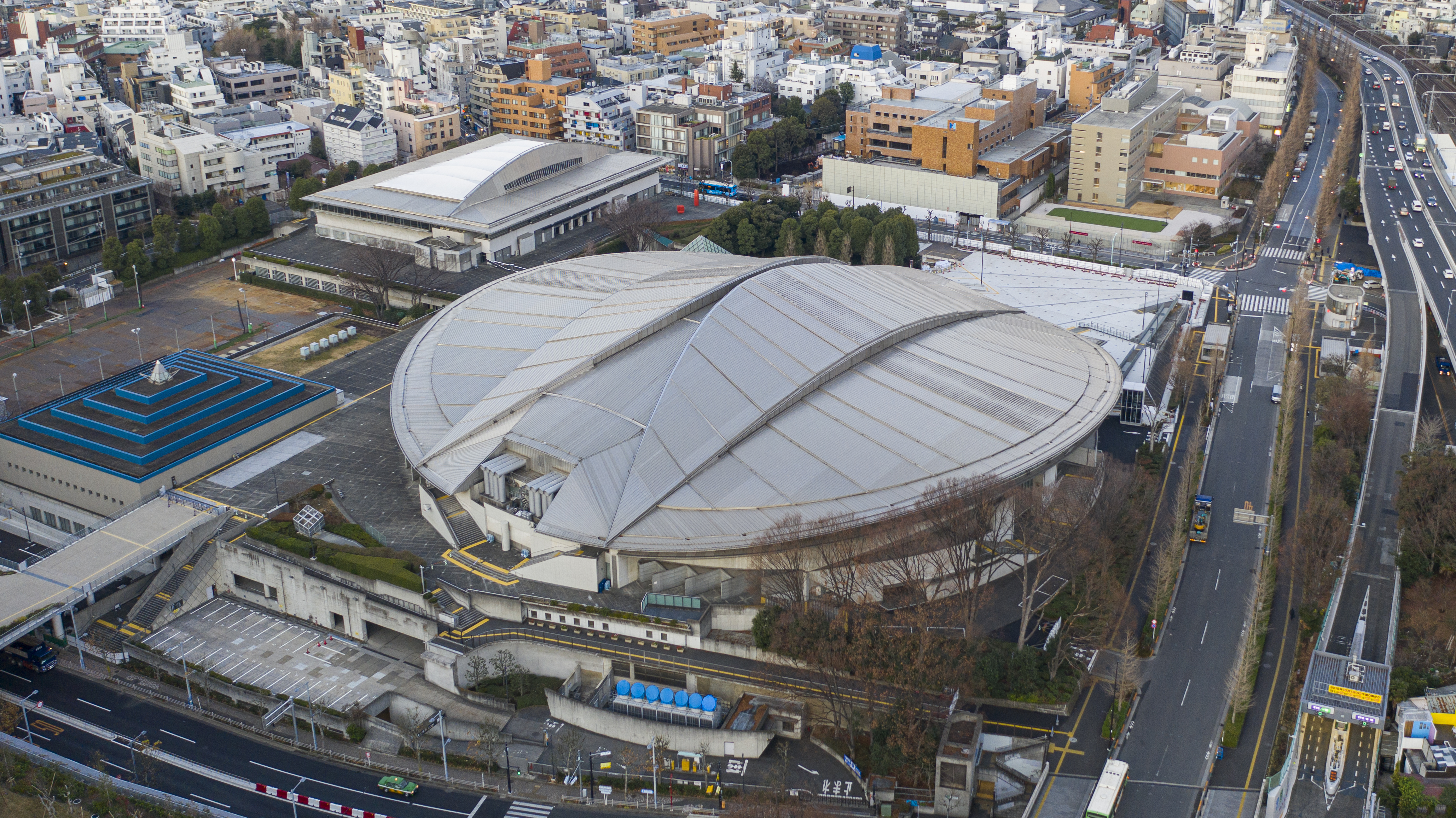 Aerial view of Tōkyō Taiikukan, Japan